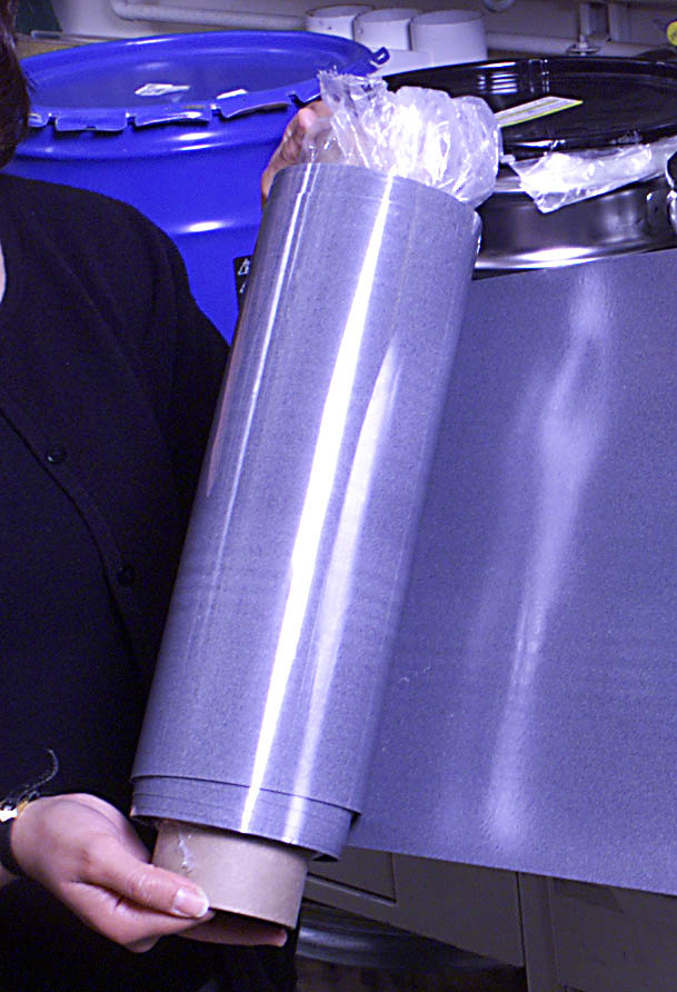 gyricon rolled paper